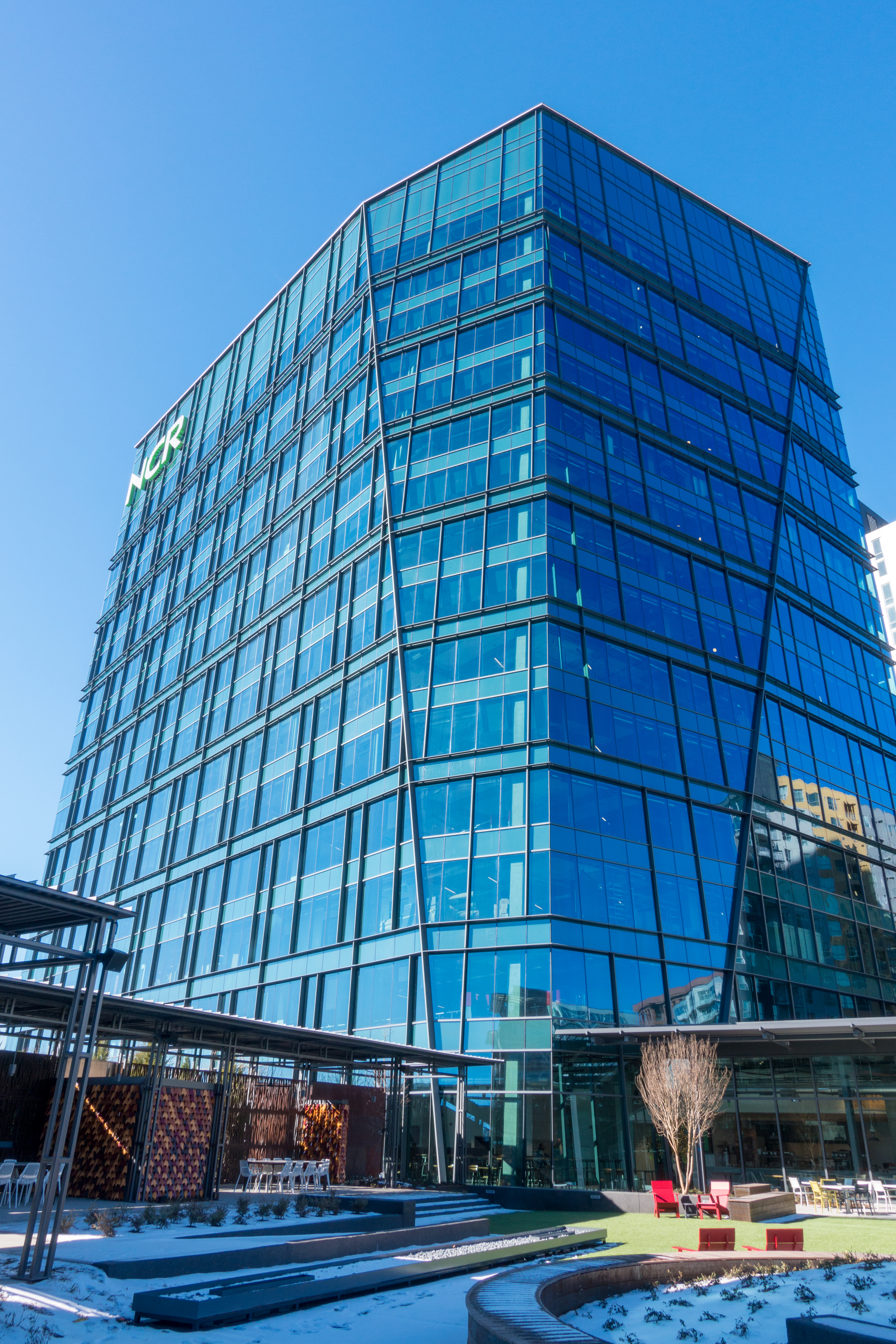 NCR World Headquarters in Midtown, Georgia as seen from the 6th floor green space.